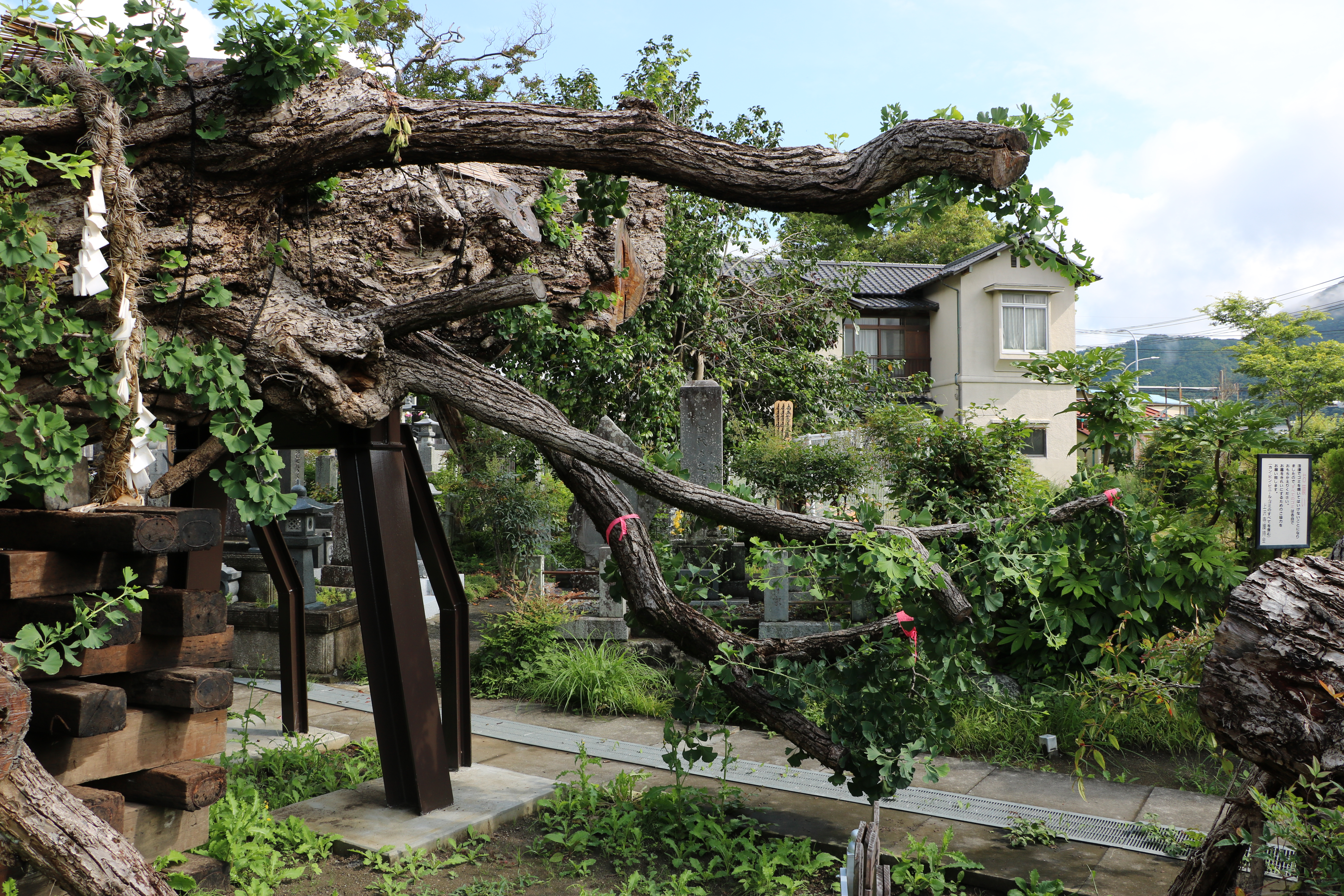 Jotakuji no Ohatsuki Icho